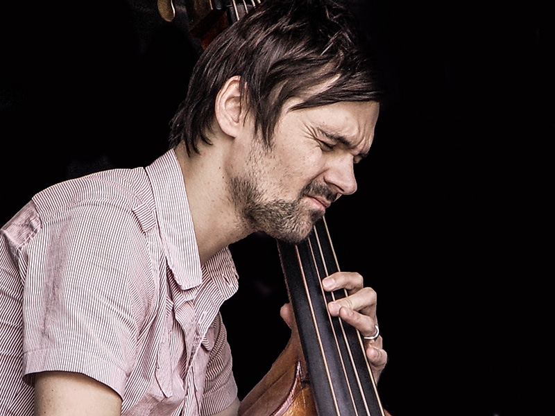 Nicolai Munch-Hansen, Aarhus Jazz Festival 2012